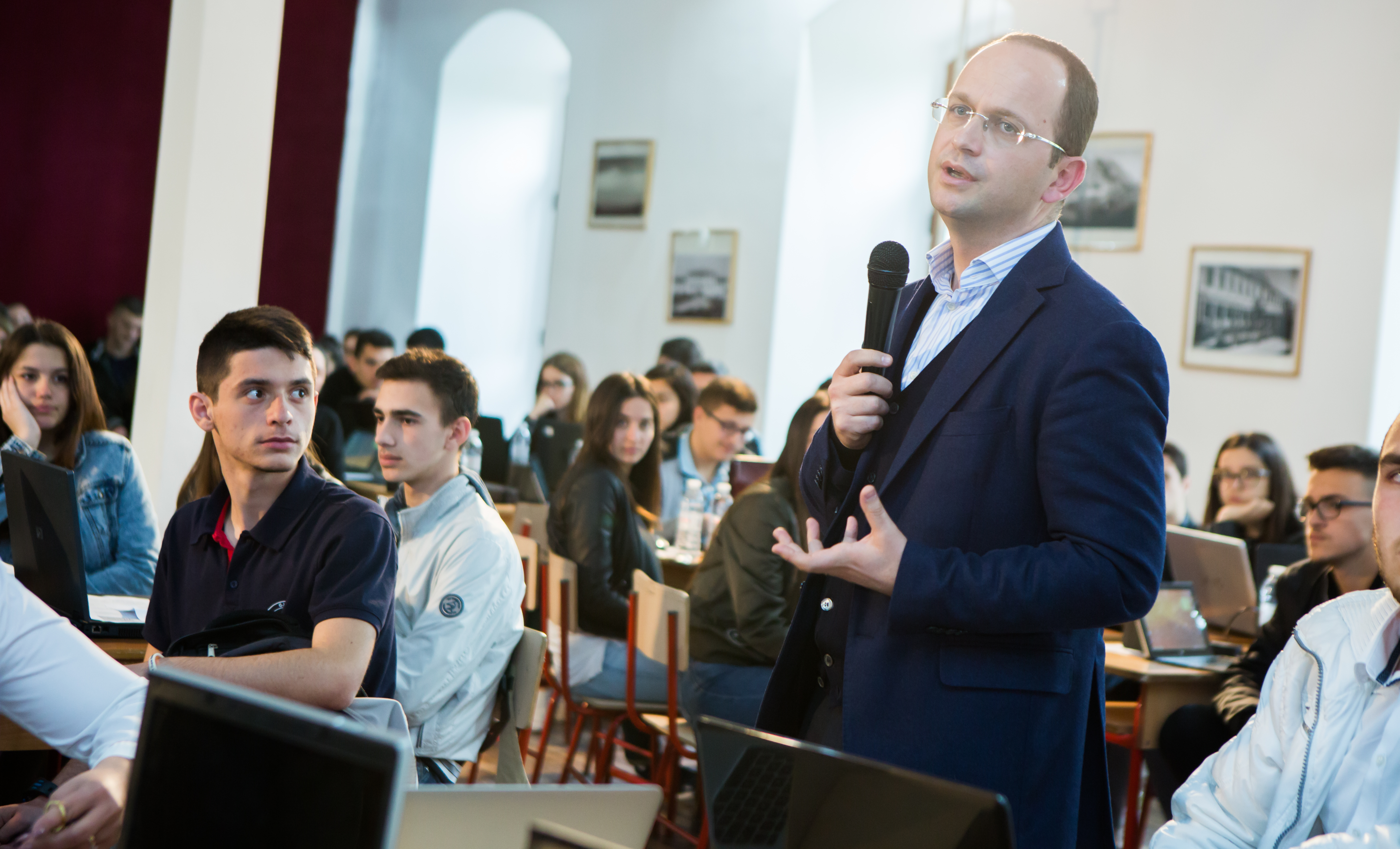 Moments from Wikiacademy in Shkodër, Albania in 2017.